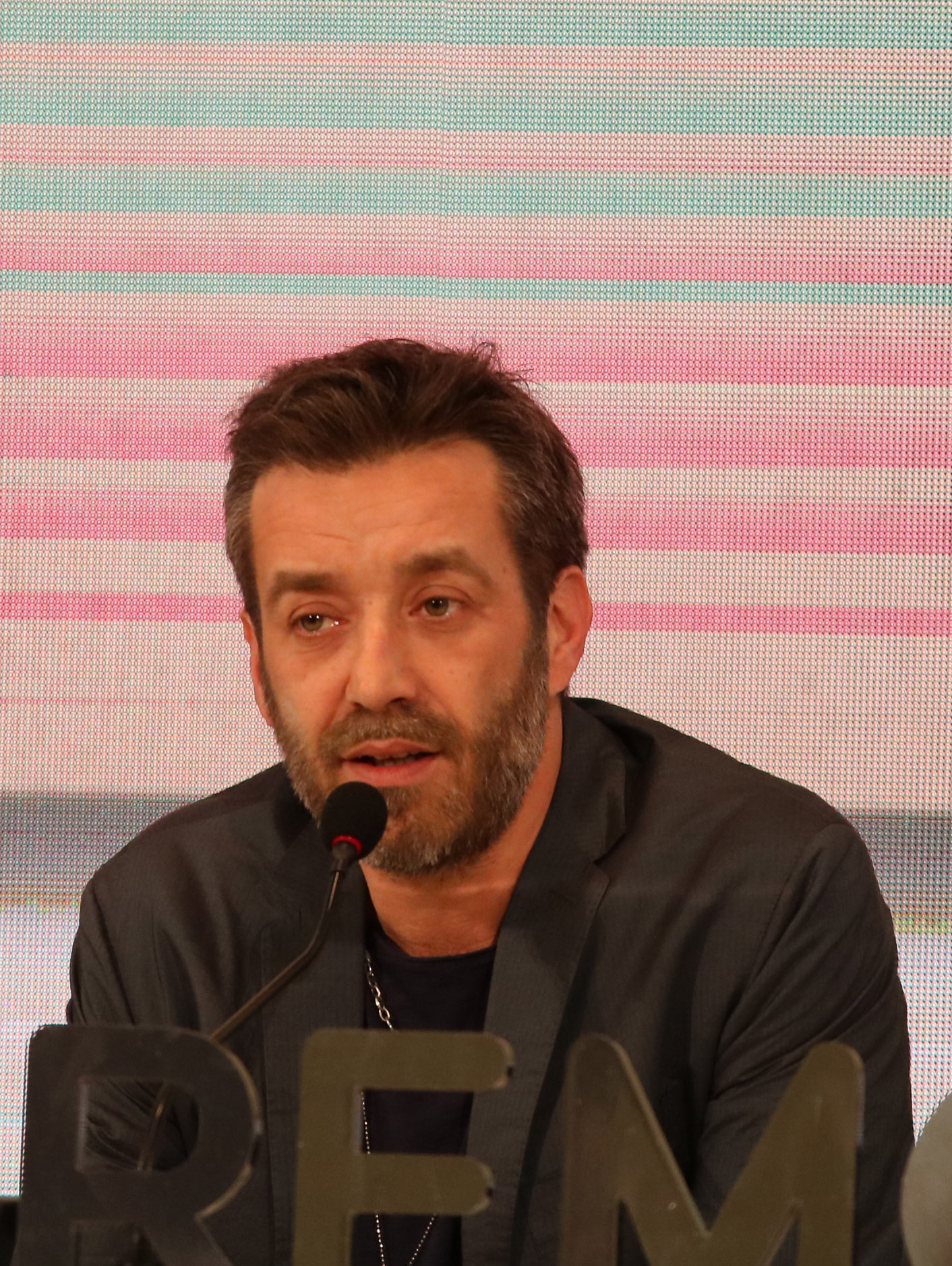 Daniele SilvestriD